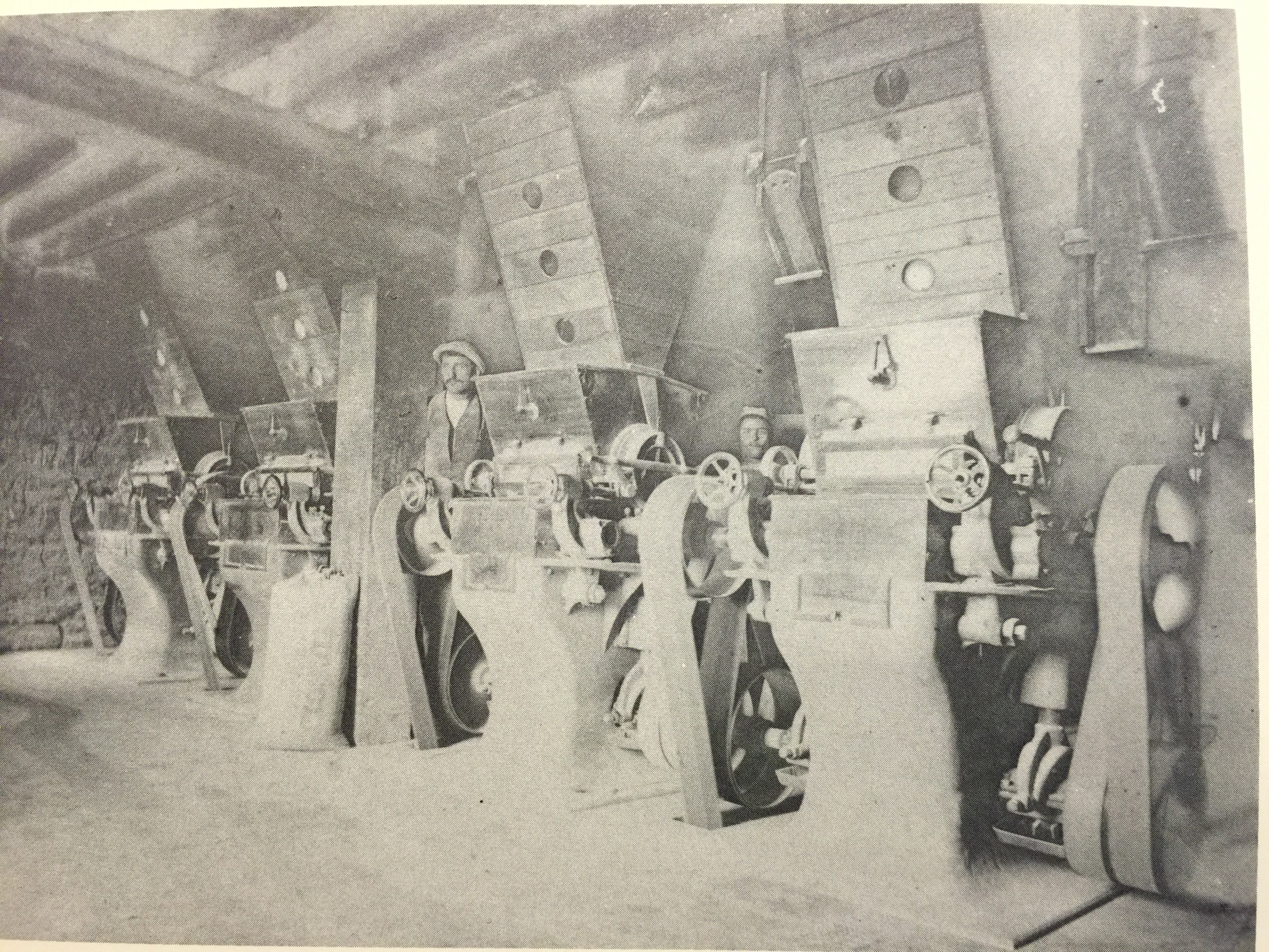 Ziebold Mill Interior circa 1882.